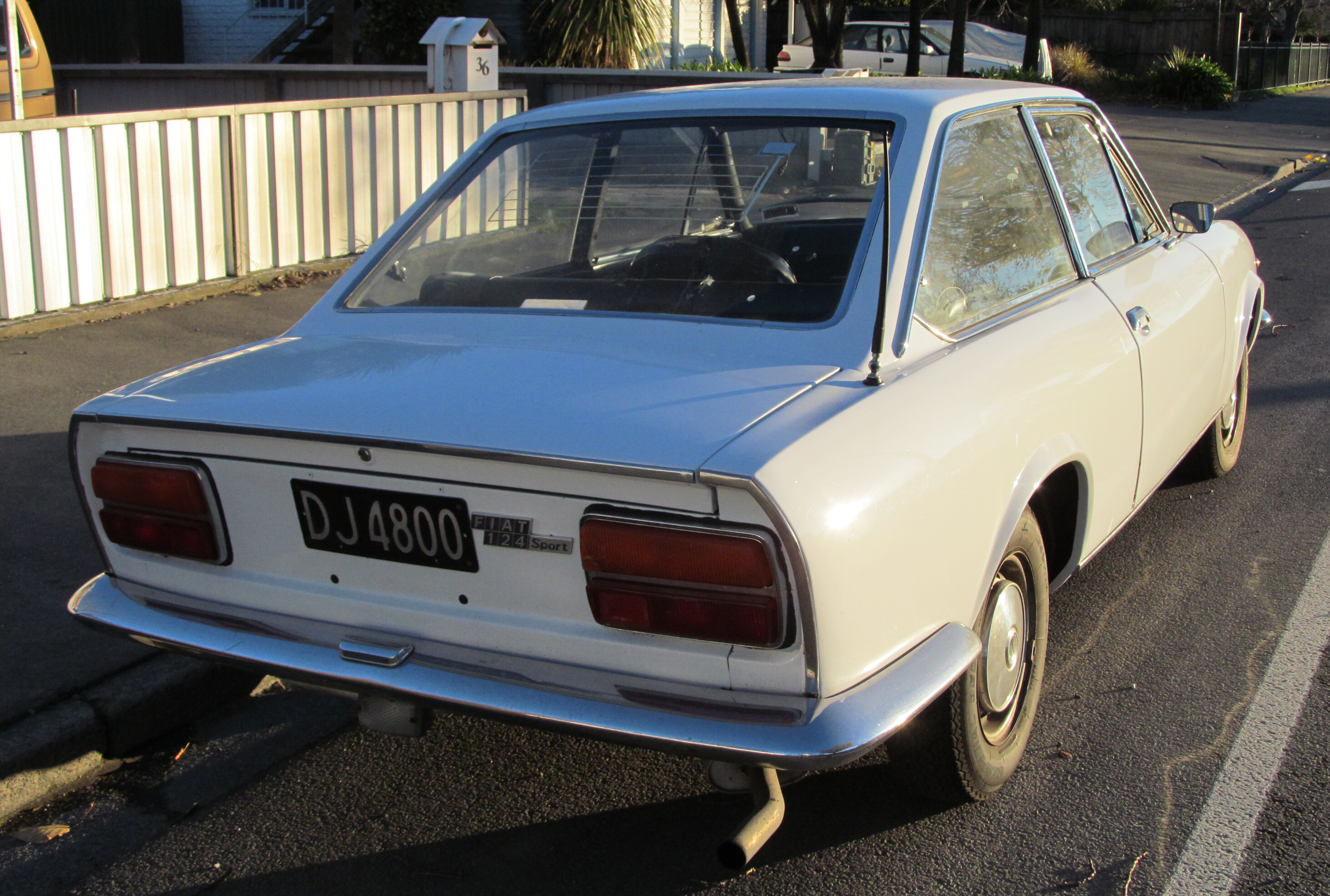 DJ4800 I had to wait for the traffic to pass before getting this shot, as it was parked on a major arterial route. It was worth it for this though! The small brown van to the left was an older Suzuki Carry.